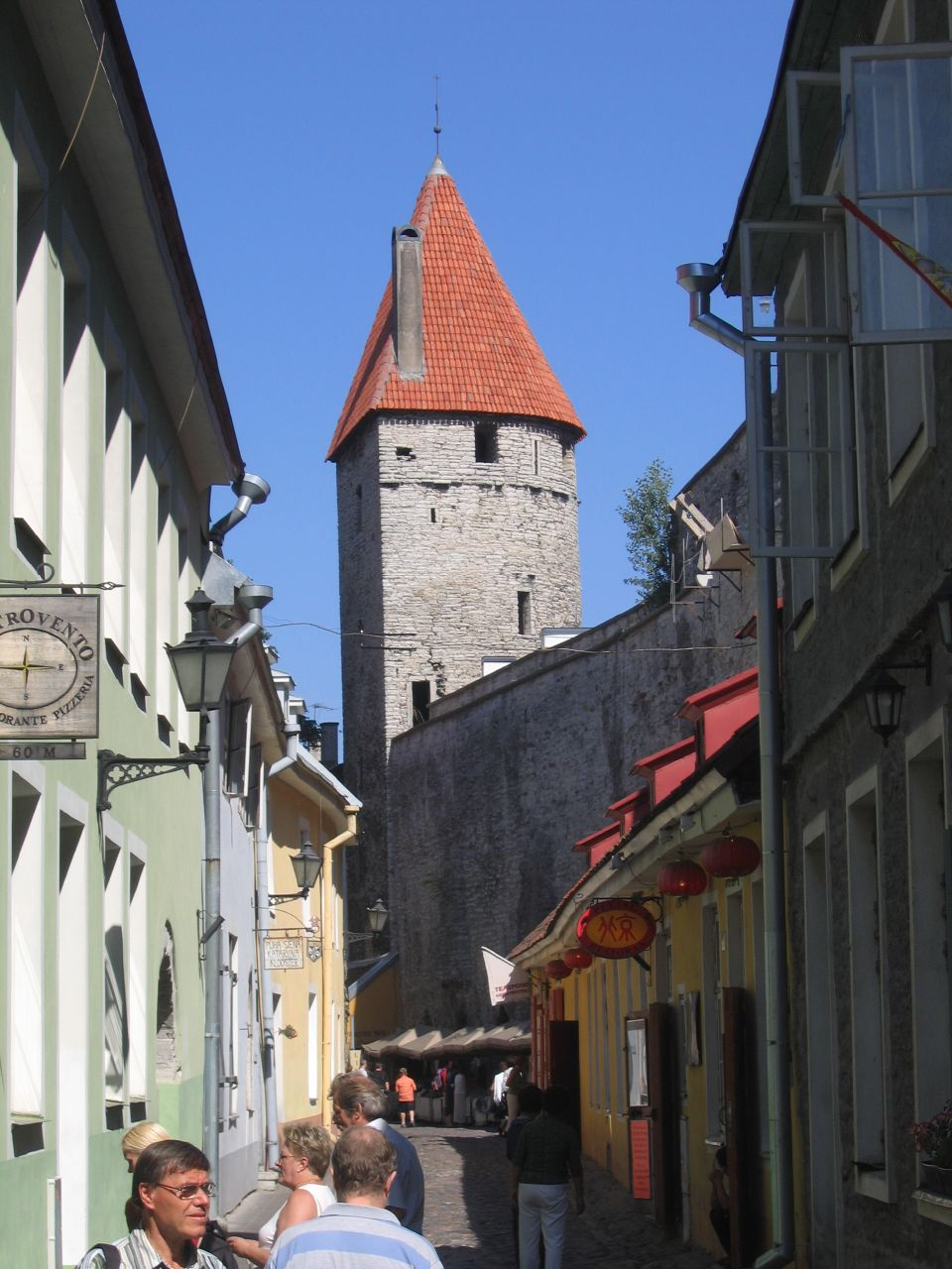 The Tower behind Monks (Munkadetagune torn) in Tallinn, Estonia.